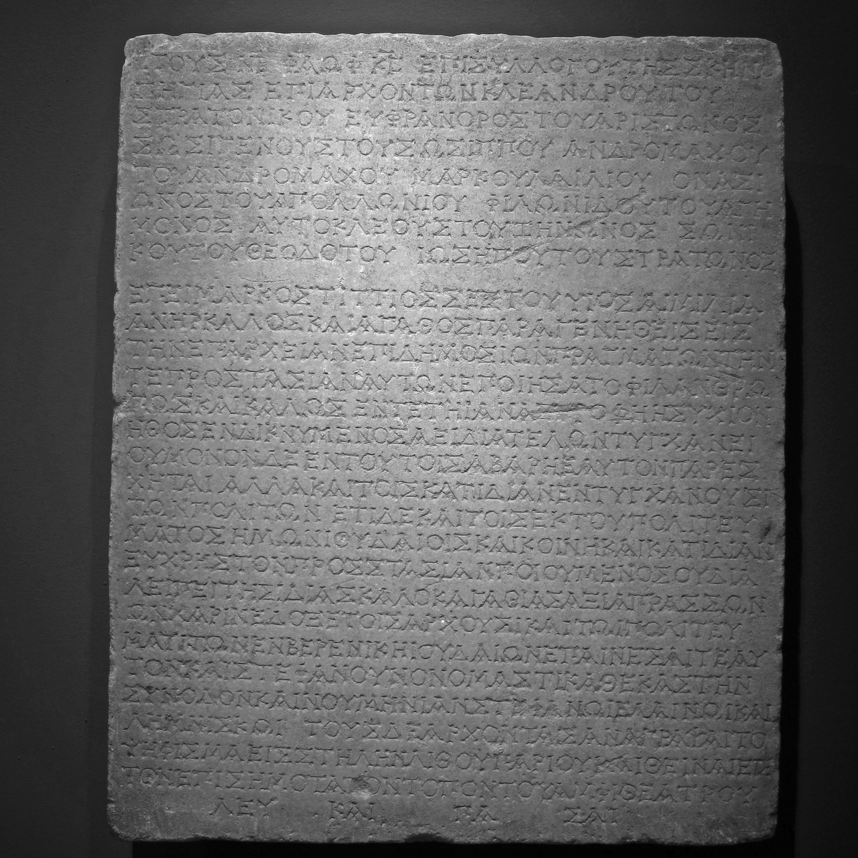 Décret de la communauté (politeuma) des Juifs de Bérénikè (Benghazi) en l'honneur de Marcus Titius, fils de Sextus, le 25 du mois de Phaôph. Now in Musée Saint-Raymond, Toulouse (France). Date : 22 ou 25 après J.-C.Origine : Benghazi (Libye). Stèle rectangulaire en marbre de Paros. Traces de peinture rouge sur les lettres. Anciennes collections du président du parlement d'Aix Cardin Le Bret au XVIIIe, puis collection du compte de Clarac. Numéro d'inventaire : Inv. Ro 101.